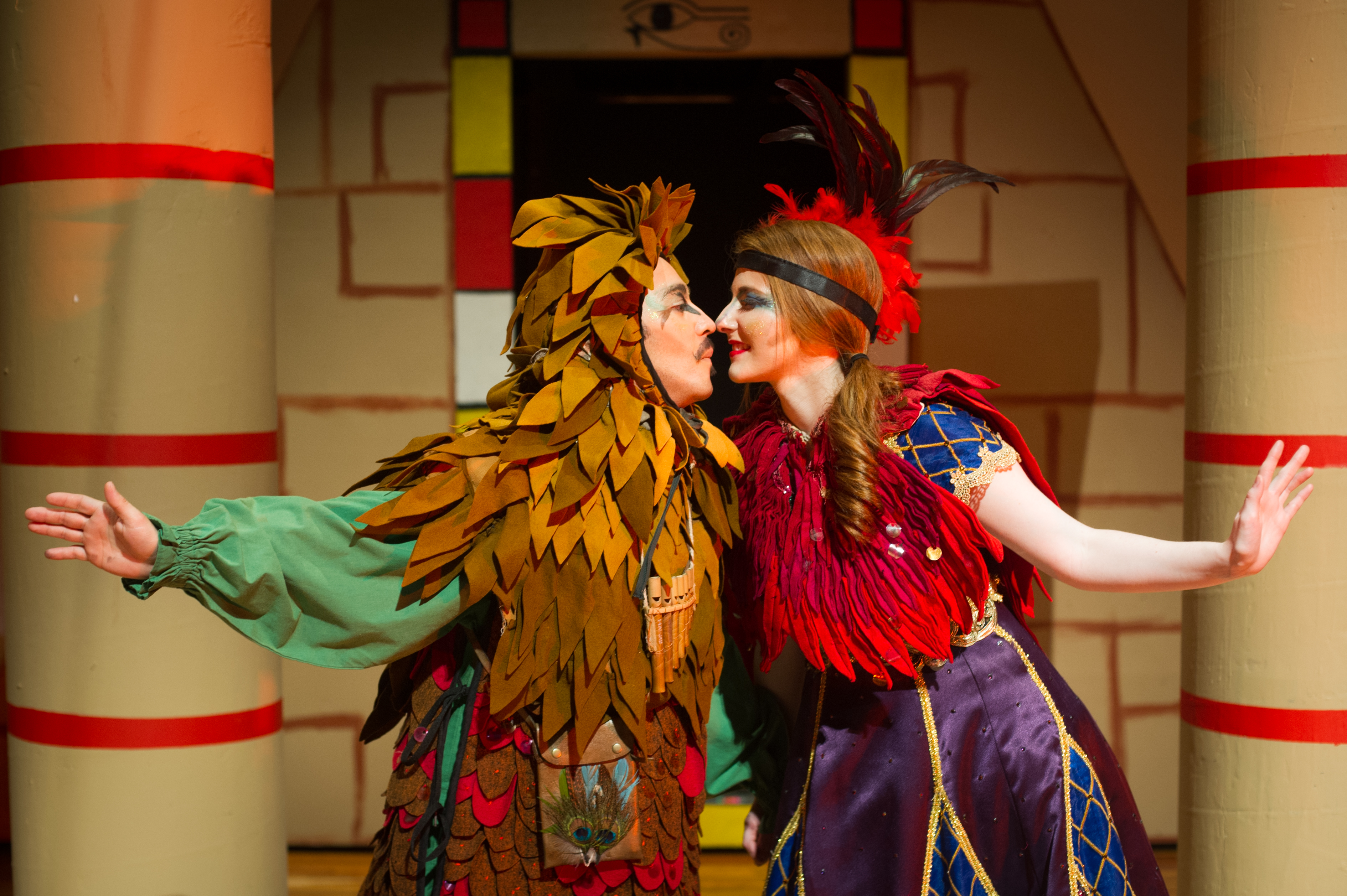 15031-Daniel Molina and Laura Shelton as Papageno and Papagena in Magic Flute Production-0413 Magic Flute production at Texas A&M University–Commerce